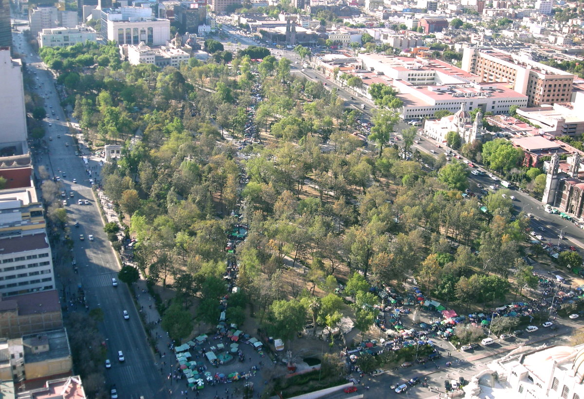 The Alameda Central of the México City, view from Latinoamericana Tower